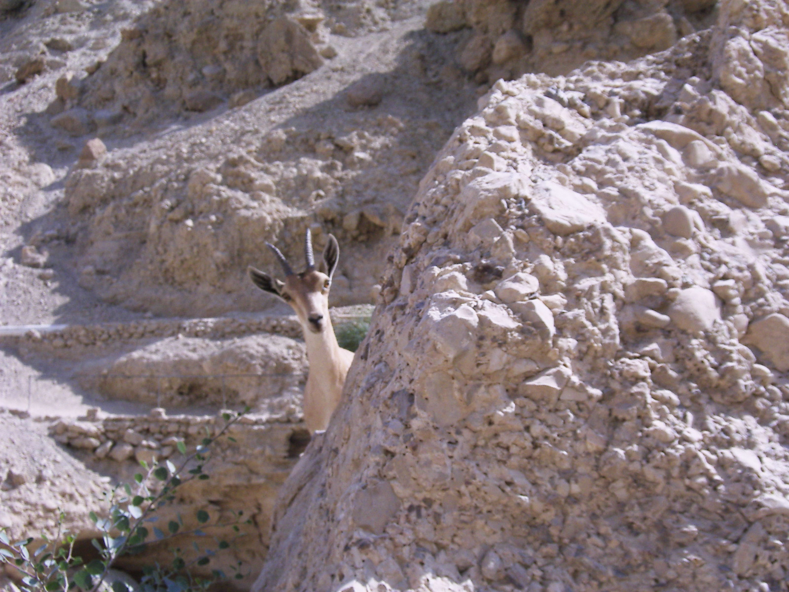 Ibex at Ein Gedi, Israel.